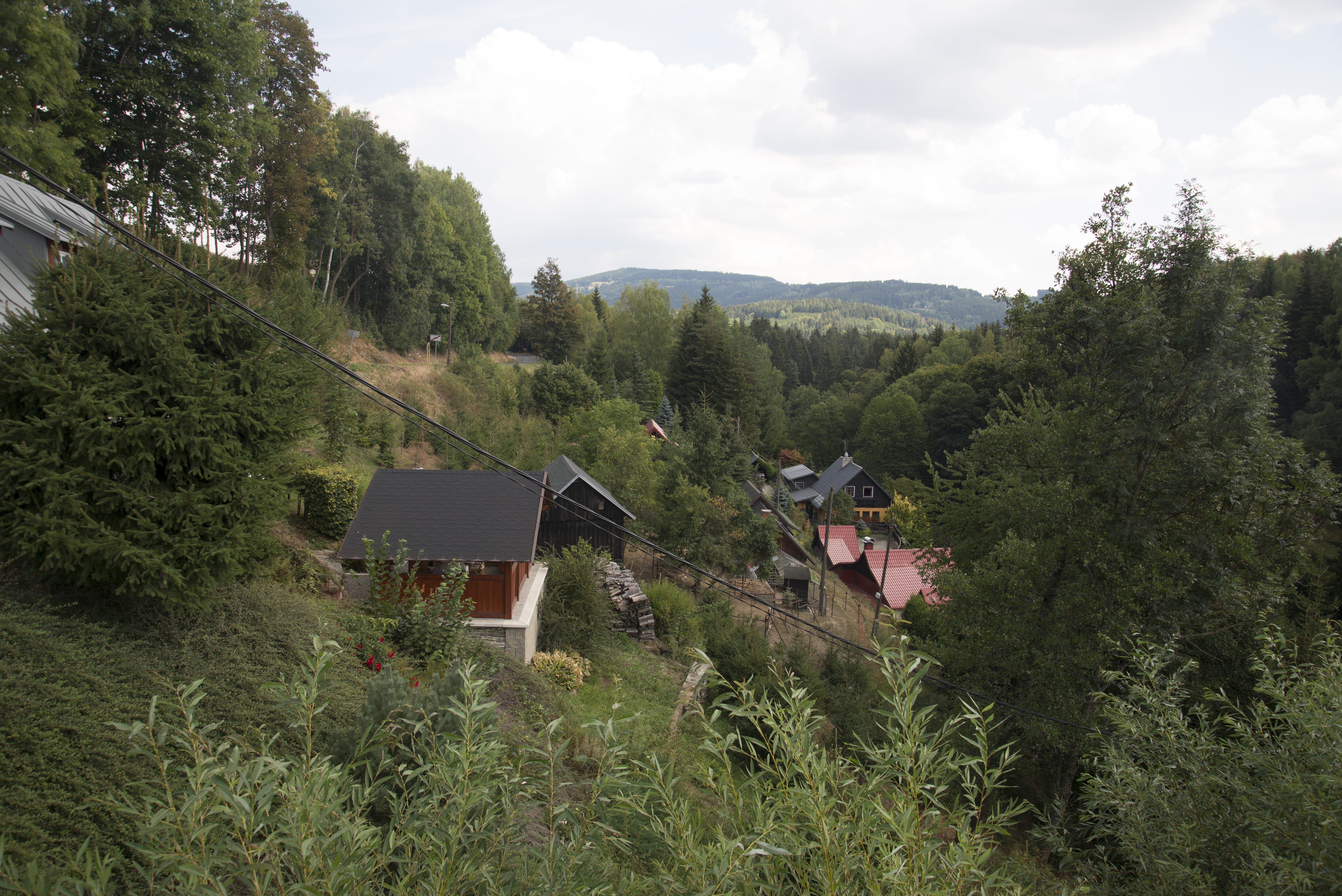 Dolní Tříč, village, part of the city Jablonec nad Jizerou, Semily District, LIberec Region